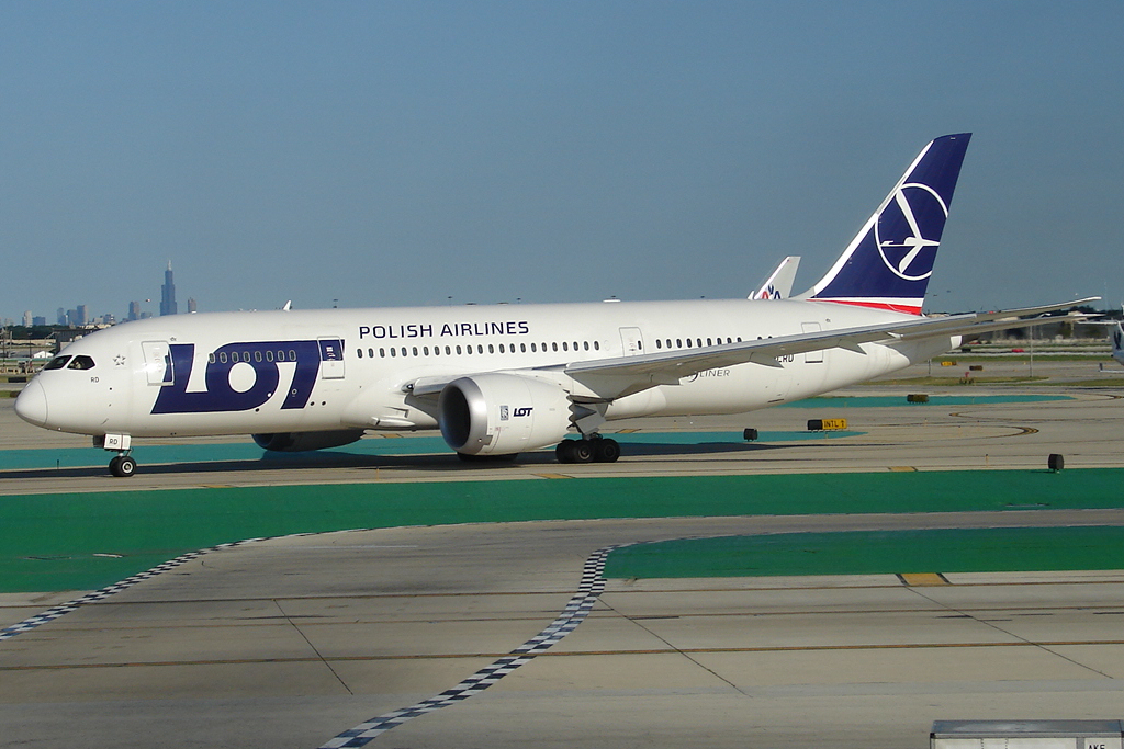 Very glad to see the 787 @ ORD